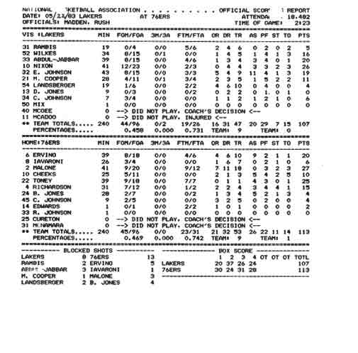 Facsimile of the official scorer's report for Game 1 of the 1983 NBA World Championship Series between the Philadelphia 76ers and the Los Angeles Lakers.